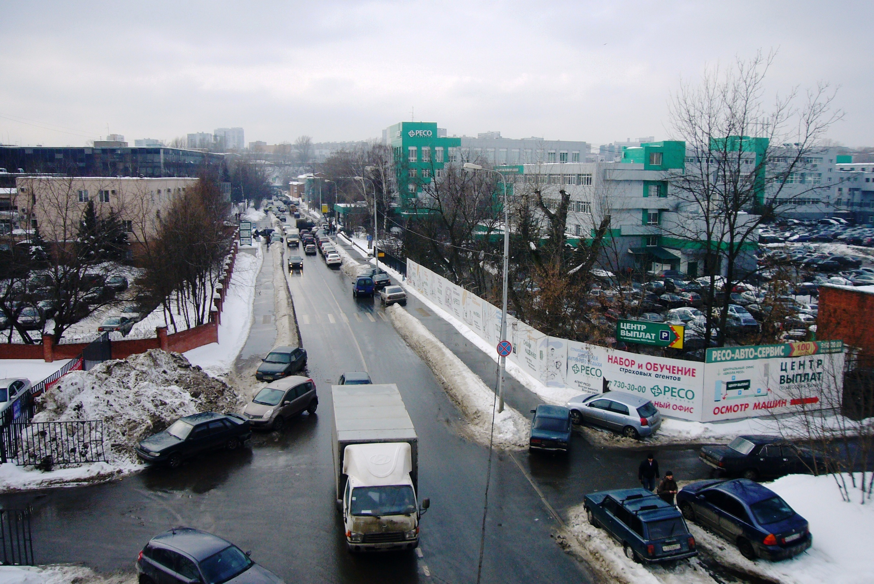 View of Nagorny Proyezd, a street in Moscow, from the railroad bridge, in winter (February 26, 2010).